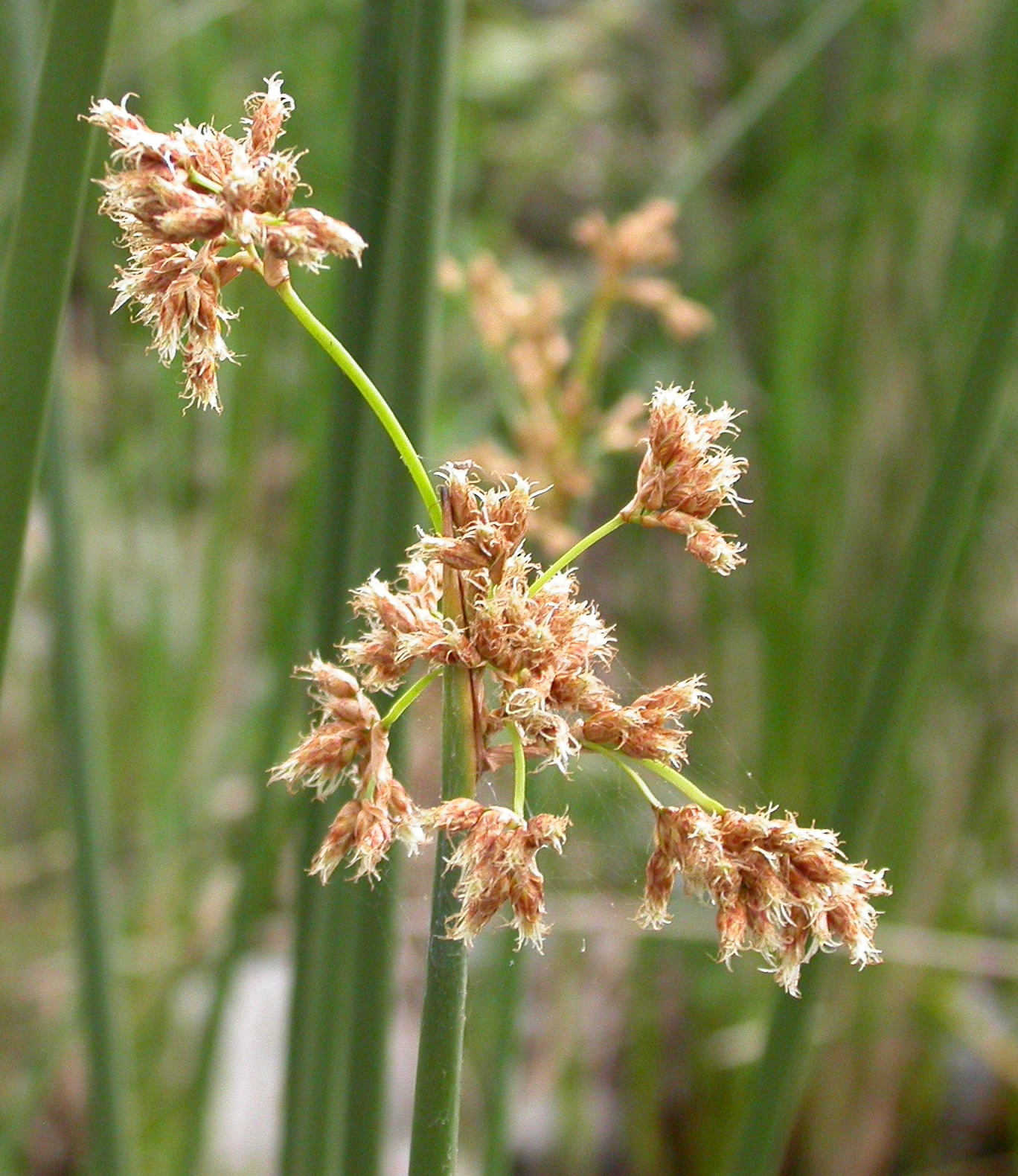 Photographed at BioTrek. Contributed and © by Curtis Clark. Licensed as noted.